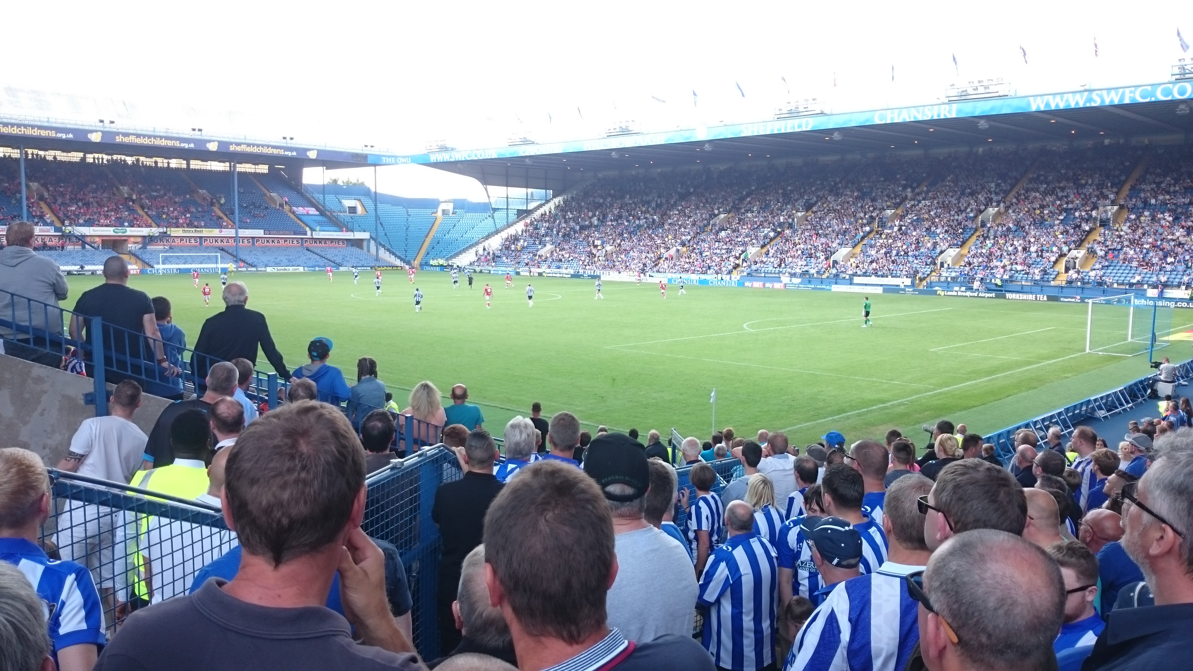 Sheffield Wednesday Fans